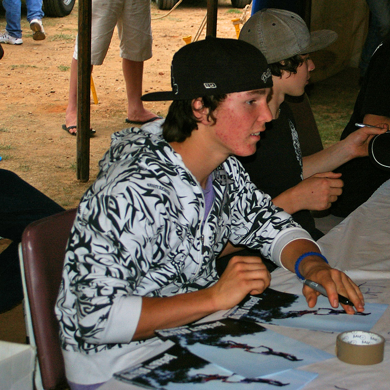 Jackson "Jacko" Strong signing autographs at the 144th Wagga Wagga Show.